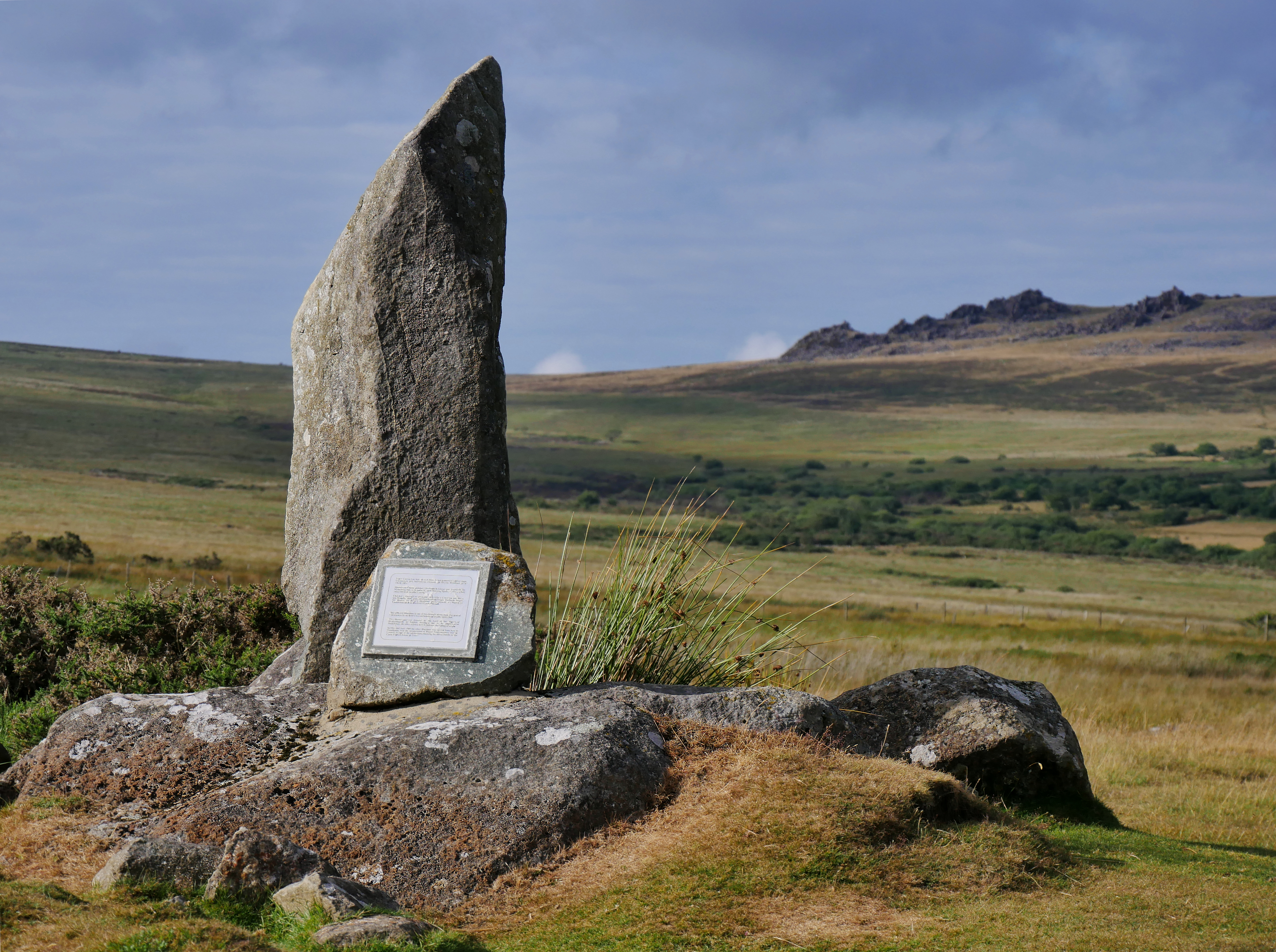 Carn Menyn - Memorial A new standing stone. The plaque on the base of this stone states that it is: "One of two brought down from the crest of Carnmenyn by an RAF Chinook helicopter on 6th April 1989. They were donated by the Lord of the Manor of Mynachlog-ddu to English Heritage, one to be displayed at Stonehenge, the other to be erected here to indicate their place of origin. In May and June 1989, the other one was carried from here to Stonehenge, with the cooperation of Preseli Pembrokeshire District Council, as part of the celebrations marking the Silver Jubilee of the Cystic Fibrosis Research Trust." I heard that there is a story about the other stone (ie the one heading for Stonehenge) somehow falling off the boat that was carrying it across the Bristol Channel, and having to be brought back to the surface before it could continue. The story appears to be true, as the BBC News website reported it here [1] at about the same time. (Thanks to 'ceridwen' for finding this link.)